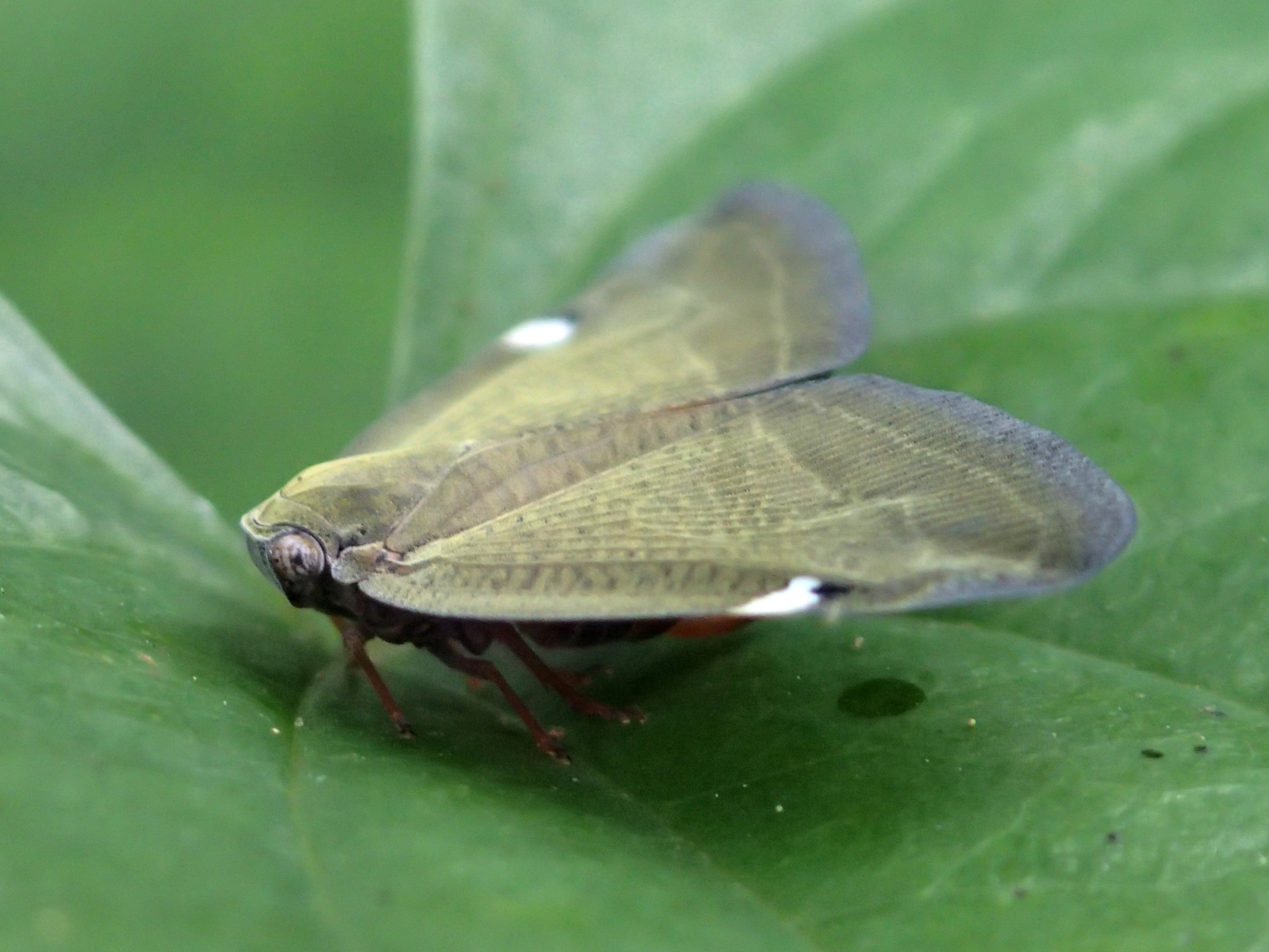 Amigasa-Hagoromo Pochazia albomaculata (Uhler, 1896) (Ricaniidae). Male from Yokohama, Kanagawa, Japan.